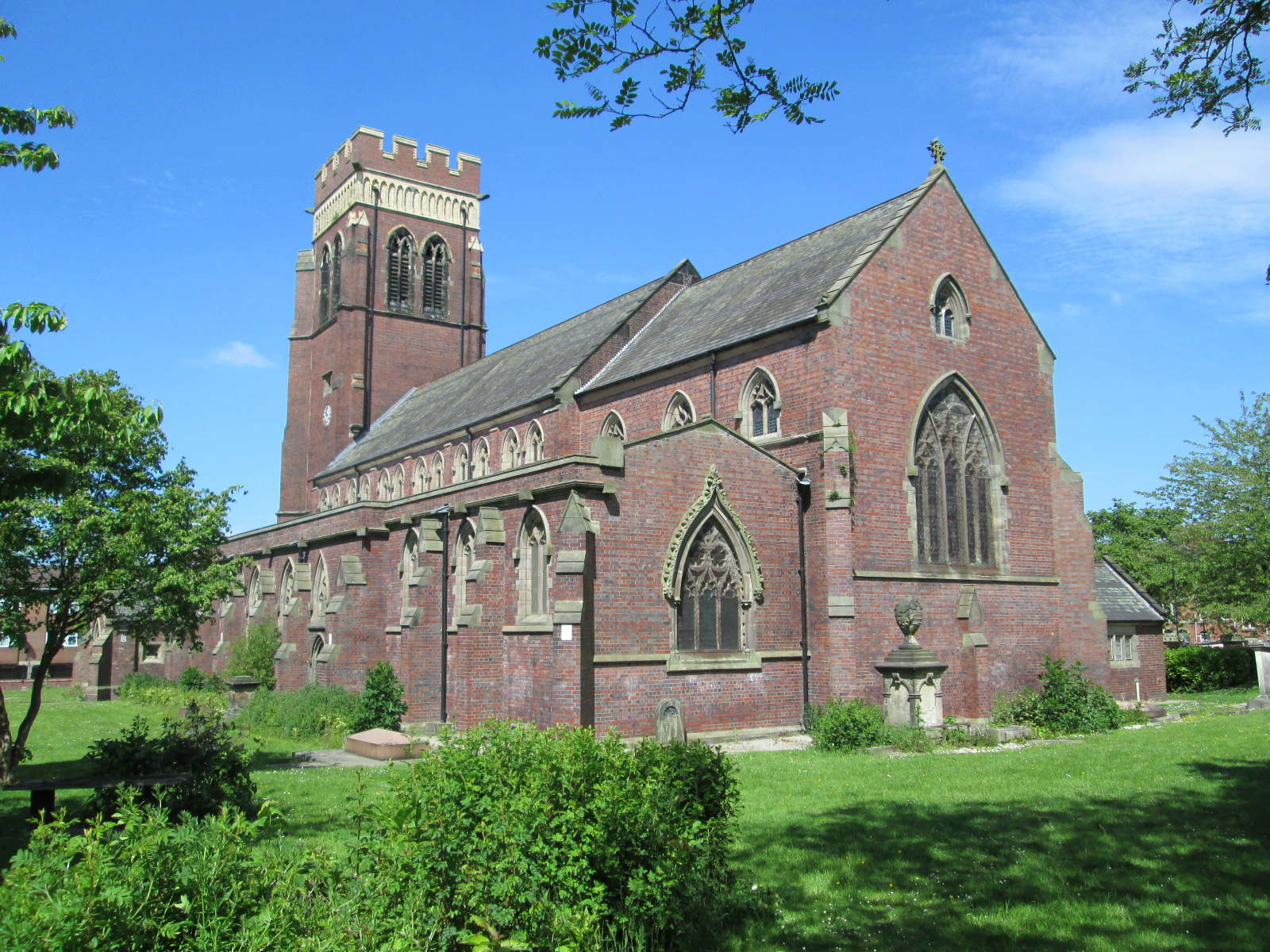 Christ Church parish church, Albert Square, Fenton, Staffordshire, seen from the southeast